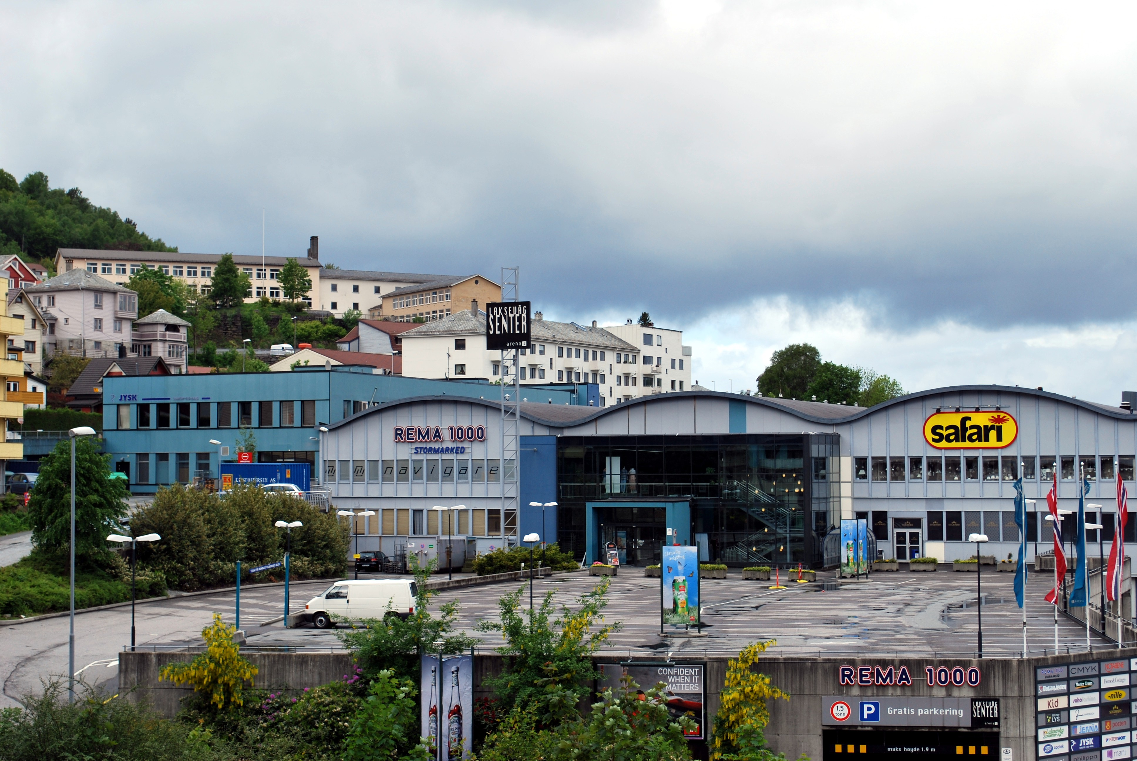 Laksevåg senter, shopping center at Laksevåg in Bergen.